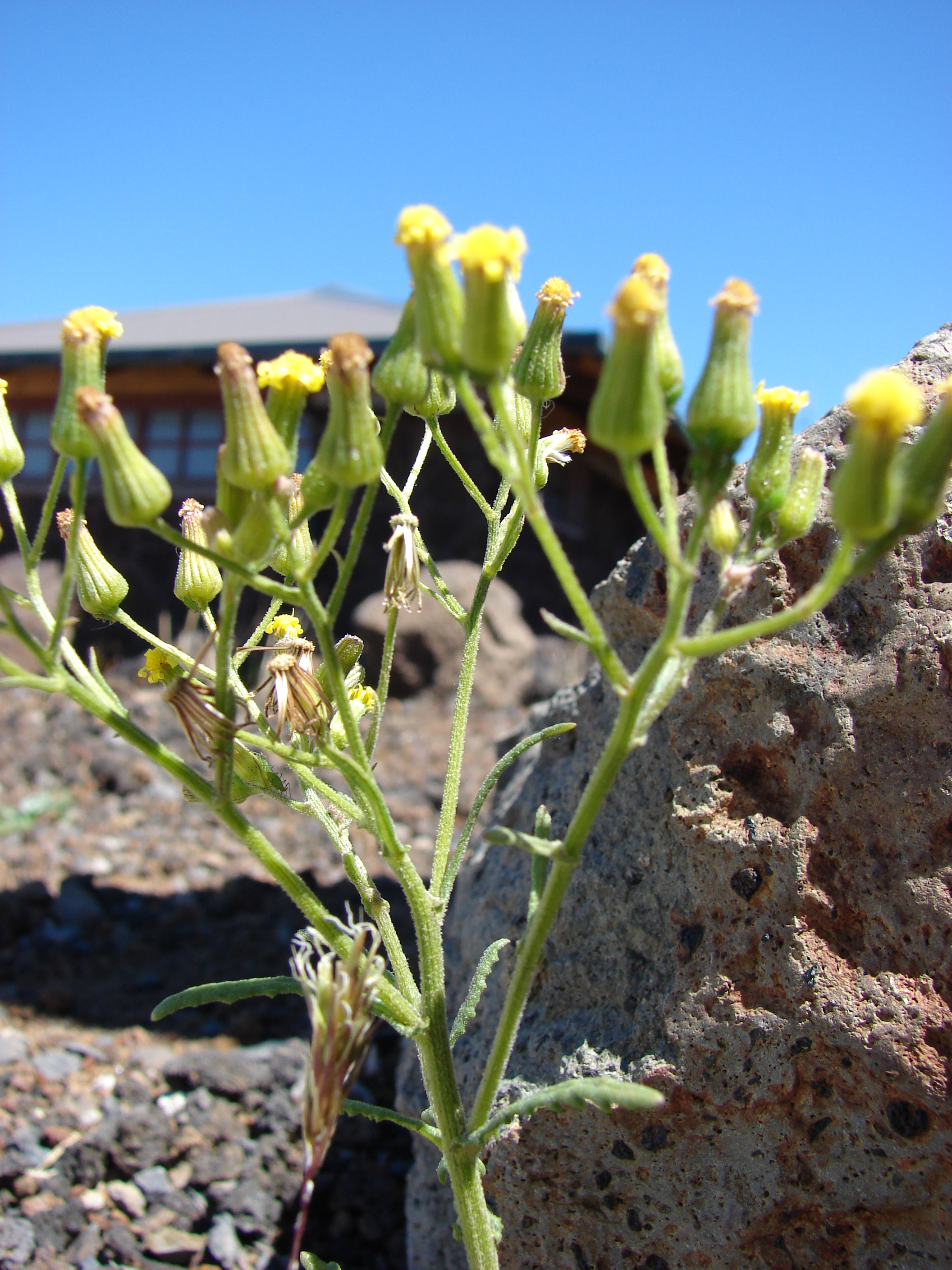 Senecio sylvaticus (flowering habit). Location: Maui, HVC Haleakala National Park